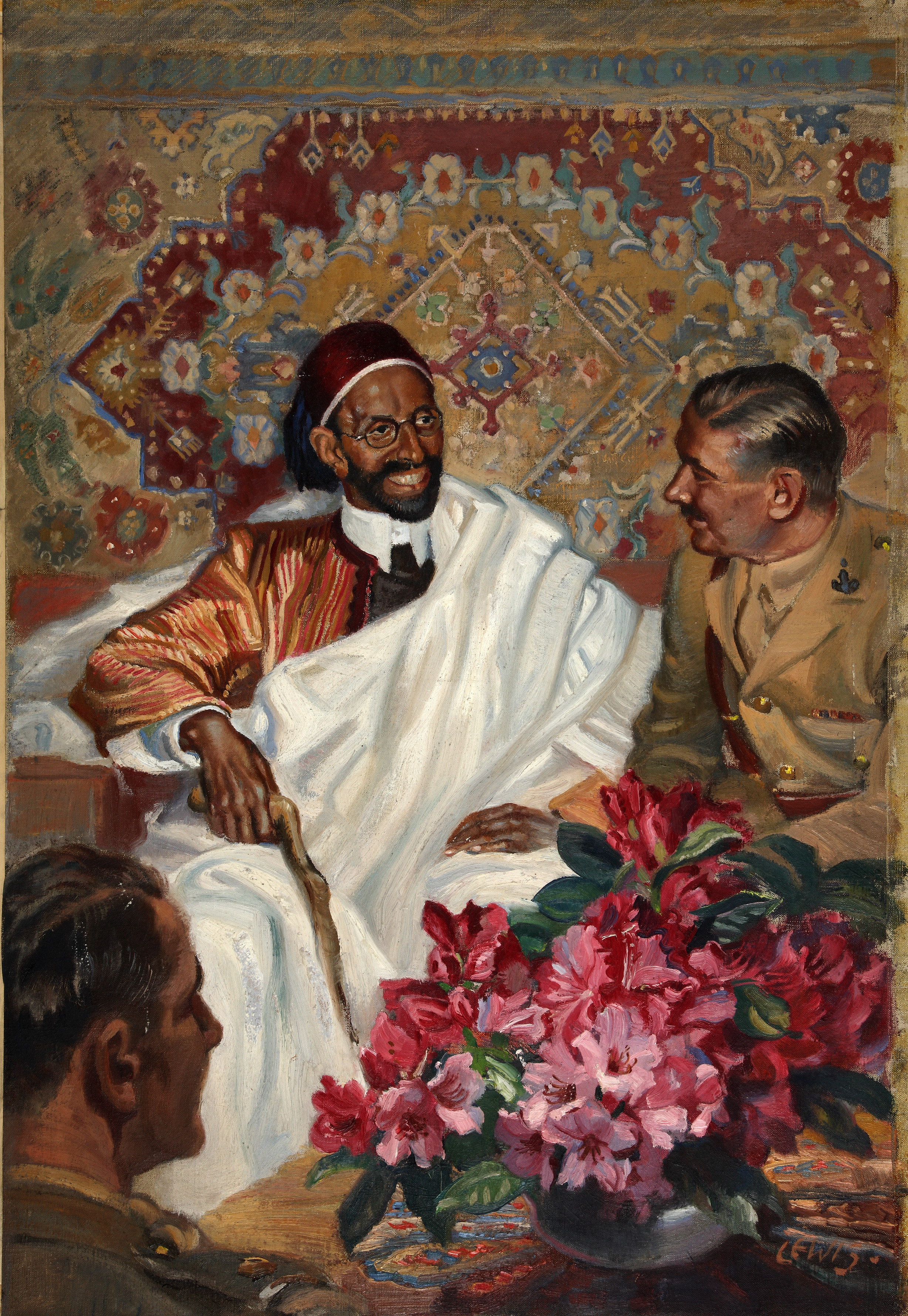 King Idris of Libya [previously thought to be Haile Selassie] with two army officers. For further information see The National Archives' document ref: INF 3/2. Depicted person: King Idris of Libya